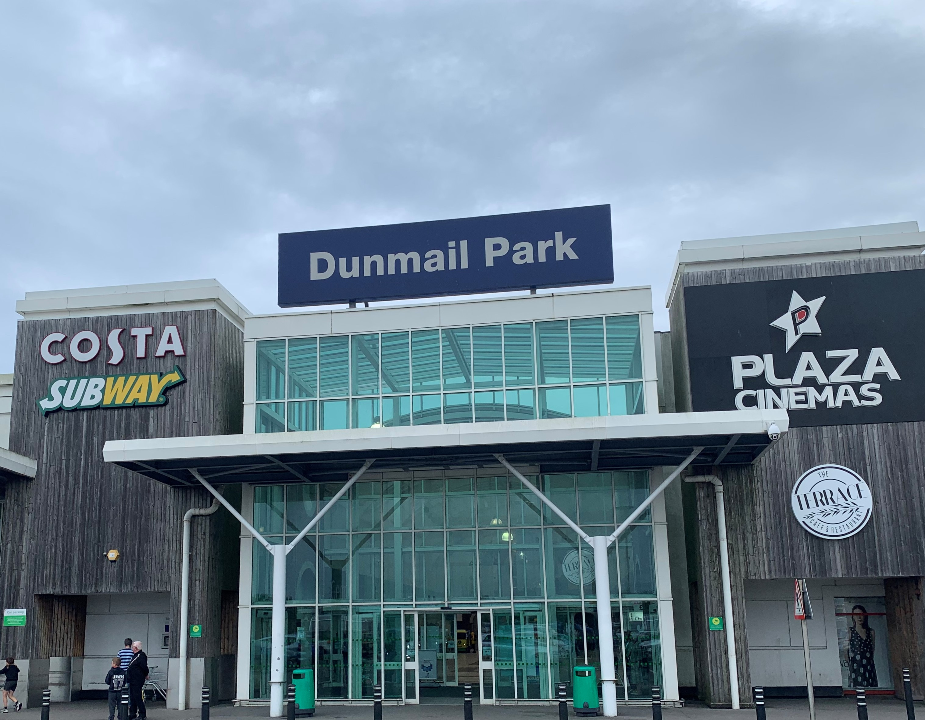 Dunmail Park is a shopping centre near Workington, Cumbria, UK. This is the main entrance as it appeared in August 2019.